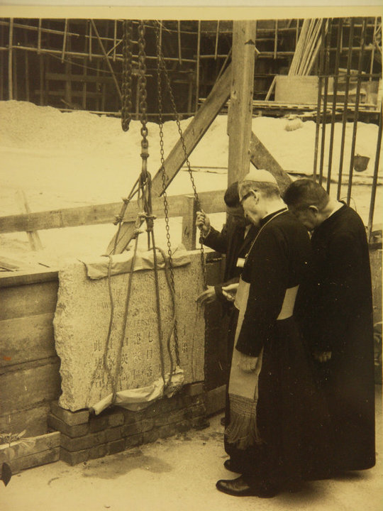 SJACS Old Campus Under Construction, Ceremony 中文（香港）: 聖若瑟英文中學興建中觀塘道前校舍，奠基典禮